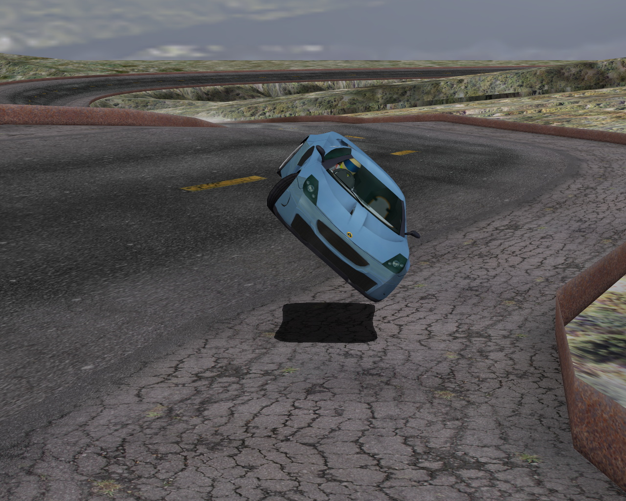 Screenshot of a Speed Dreams car rolling in the air after having taken a steeply-banked chicane at excessive speed. Car: Supercar Spirit 300 Track: Olethros Road Physics: SimuV3 This screenshot either does not contain copyright-eligible parts or visuals of copyrighted software, or the author has released it under a free license (which should be indicated beneath this notice), and as such follows the licensing guidelines for screenshots of Wikimedia Commons. You may use it freely according to its particular license. Free software license: This work is free software; you can redistribute it and/or modify it under the terms of the GNU General Public License as published by the Free Software Foundation; either version 2 of the License, or any later version. This work is distributed in the hope that it will be useful, but without any warranty; without even the implied warranty of merchantability or fitness for a particular purpose. See version 2 and version 3 of the GNU General Public License for more details. Copyleft: This work of art is free; you can redistribute it and/or modify it according to terms of the Free Art License. You will find a specimen of this license on the Copyleft Attitude site as well as on other sites. Note: if the screenshot shows any work that is not a direct result of the program code itself, such as a text or graphics that are not part of the program, the license for that work must be indicated separately.